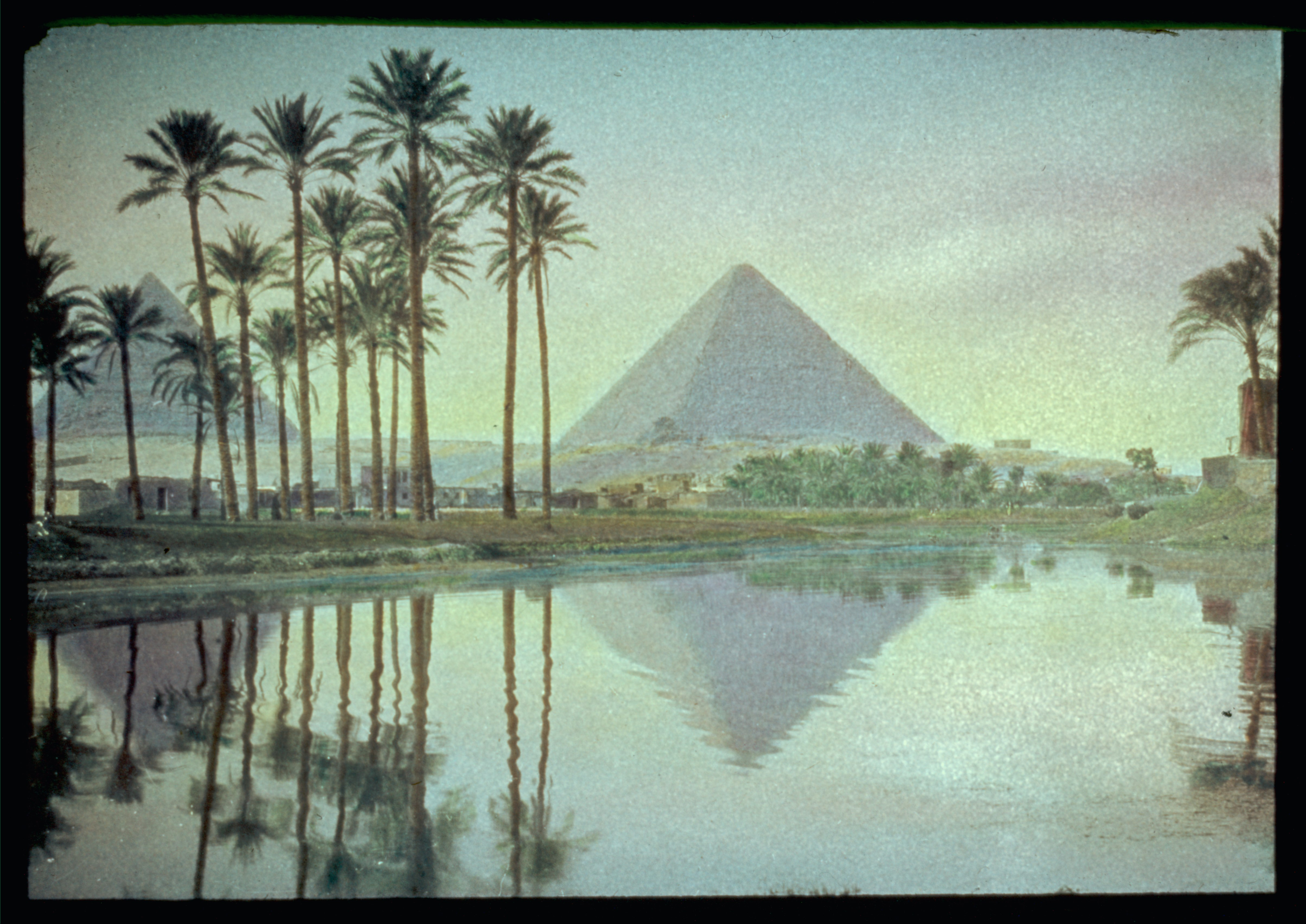 Title: Egypt. Pyramids. Pyramids and palm grove reflections Abstract/medium: G. Eric and Edith Matson Photograph Collection Physical description: 1 slide